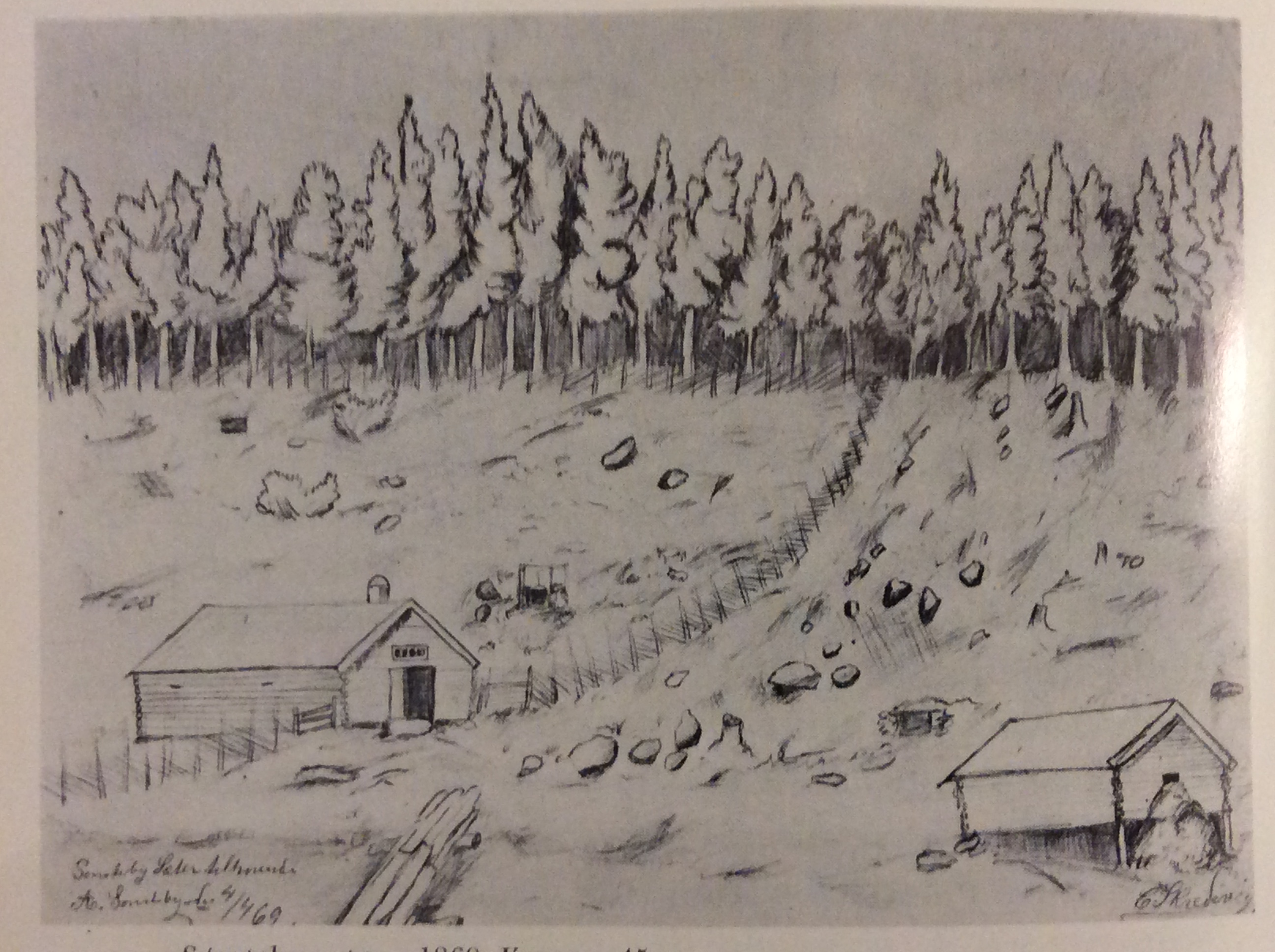 Early drawing made by Christian Skredsvig (1869)